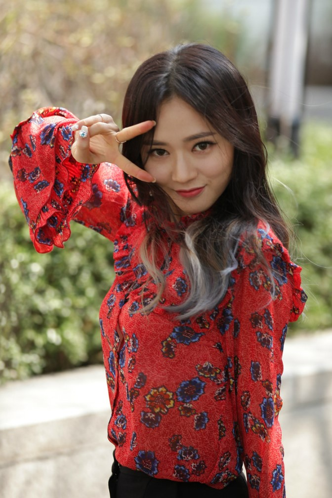 Sojung at a fansign in Shinsegae, March 19, 2016.